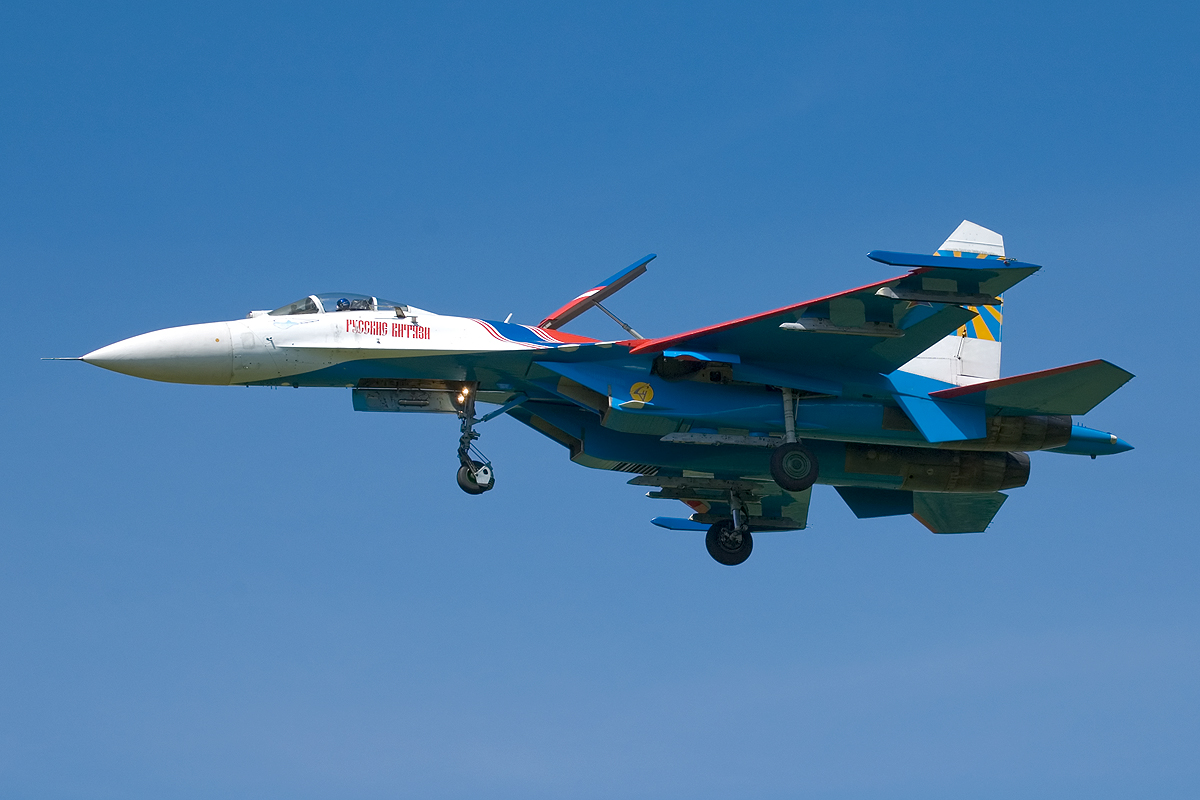 Su-27 from Russian Knights aerobatic team